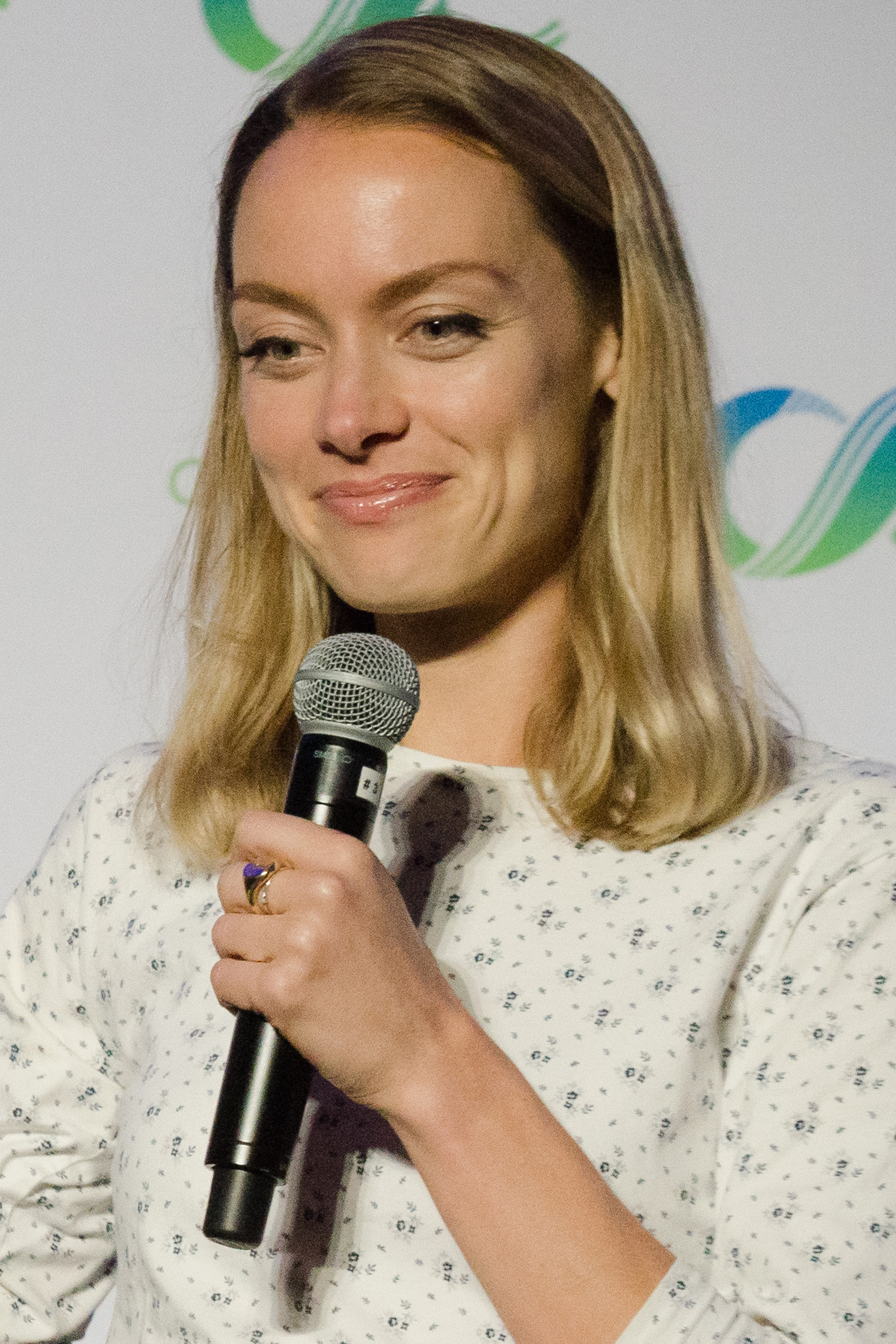 Rachel Skarsten during at the ClexaCon on April 8, 2018.